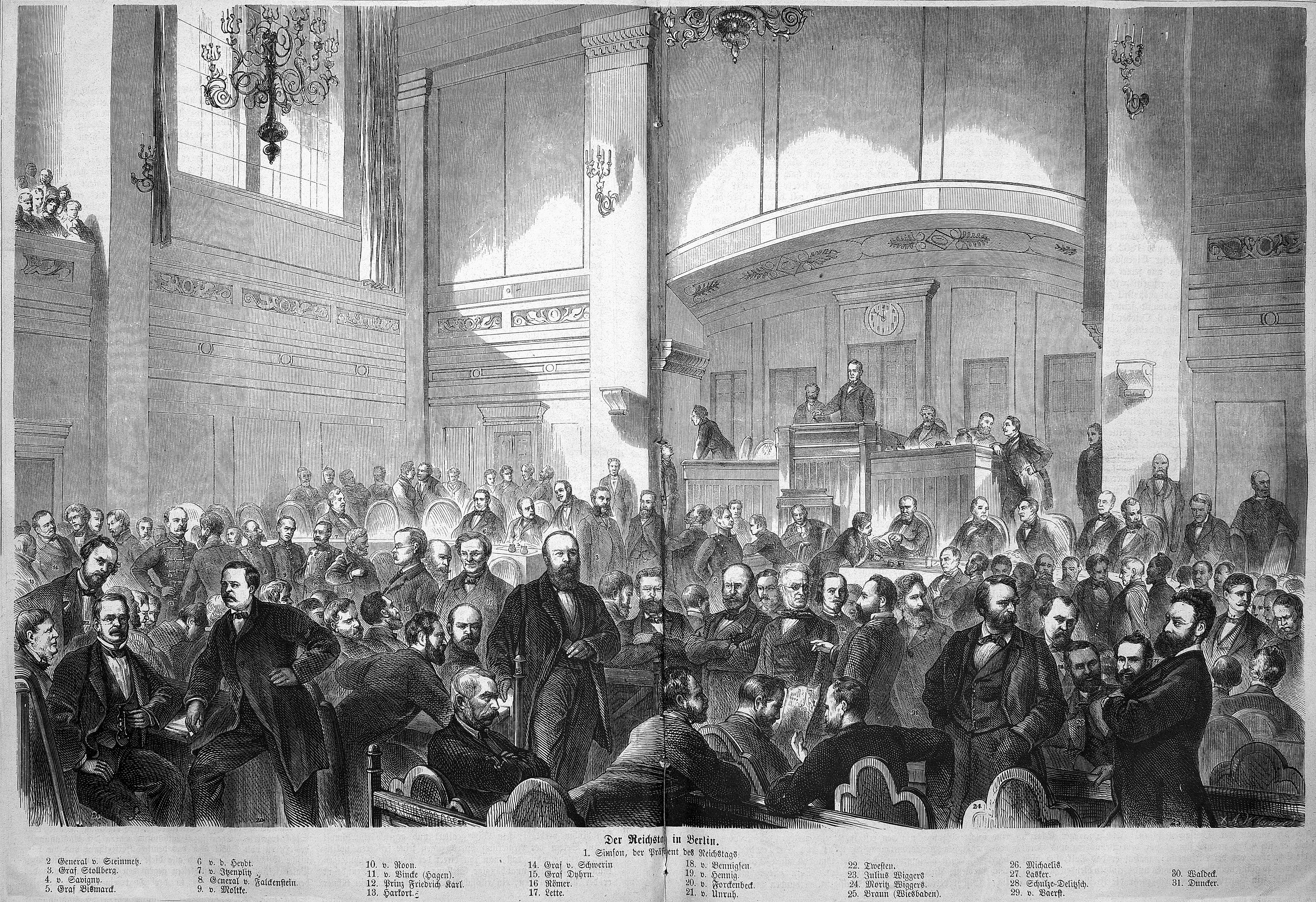 caption: "Der Reichstag in Berlin. [Konstituierender Reichstag]1. Simson, der Präsident des Reichstags."